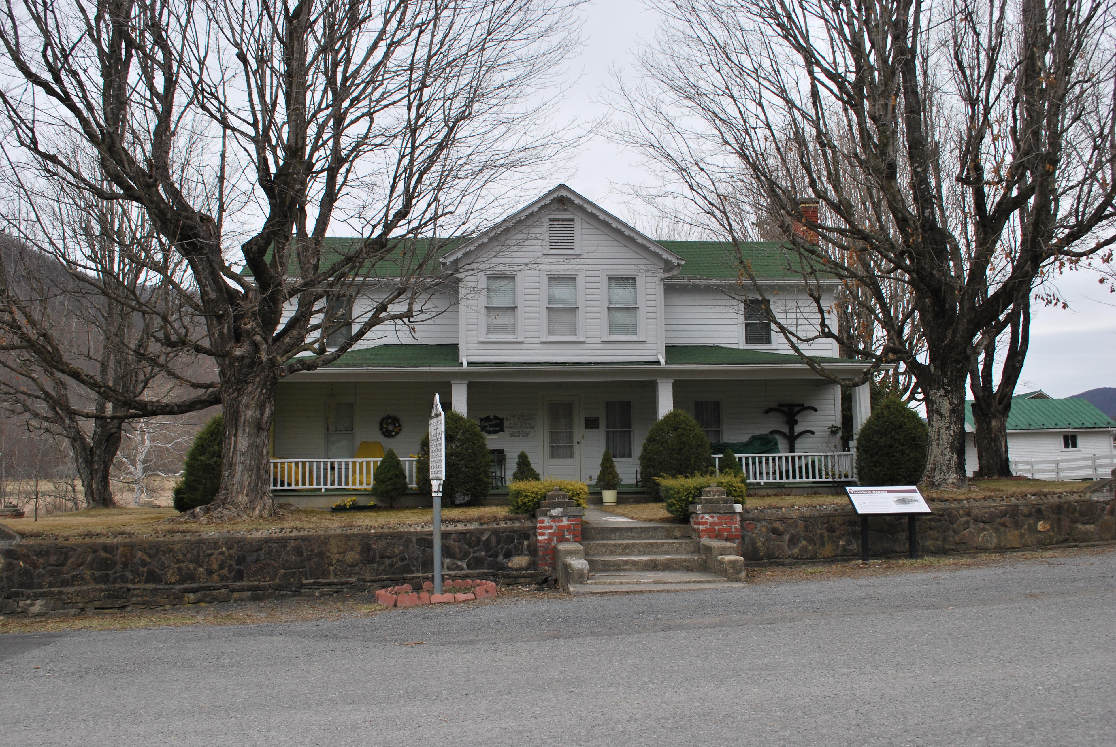 Travellers Repose at Bartow, West Virginia.